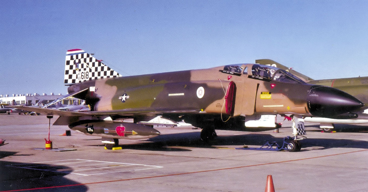 57th Fighter-Interceptor Squadron McDonnell F-4C-20-MC Phantom 63-7618 about 1976